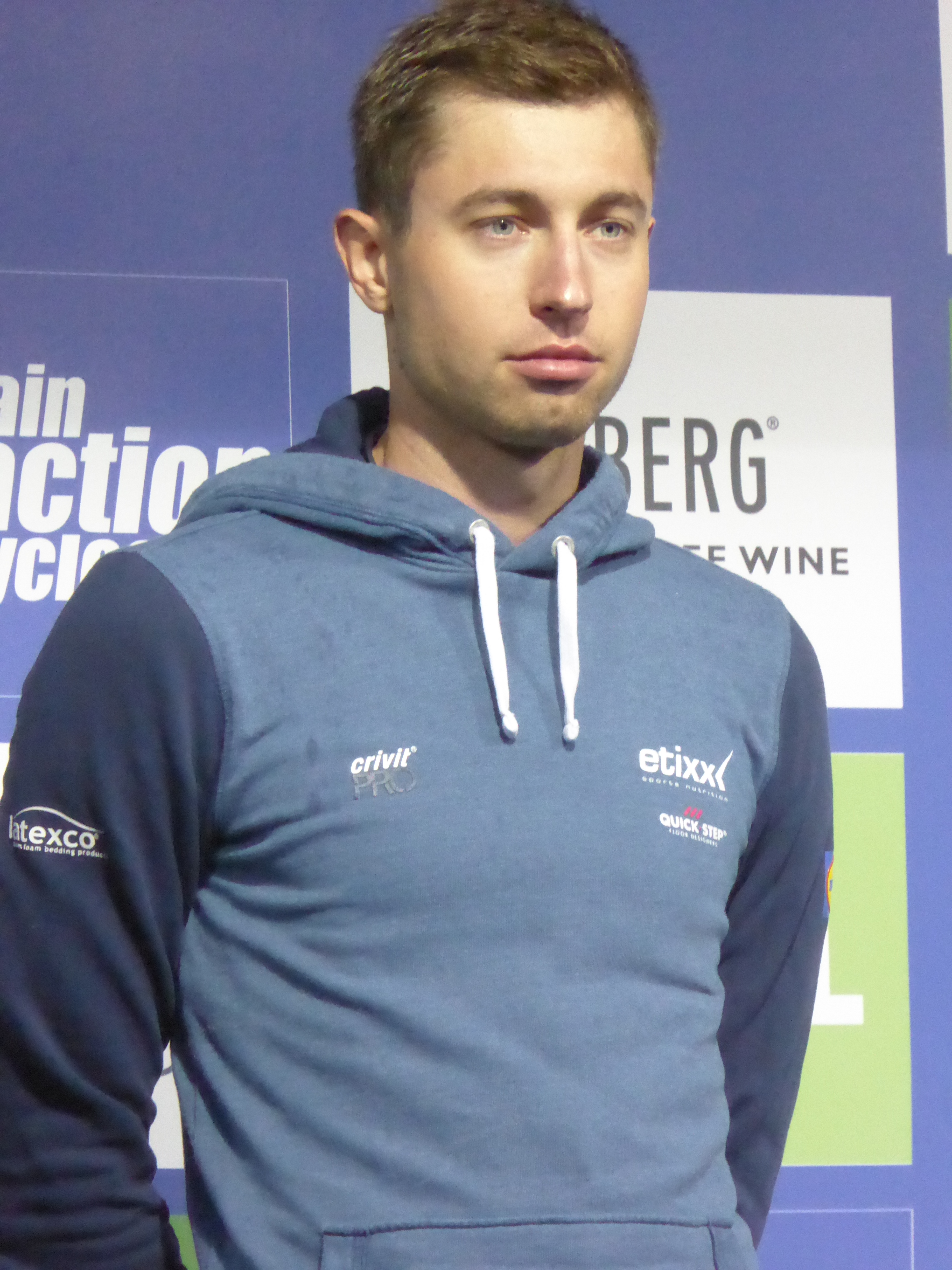 Łukasz Wiśniowski (Etixx-Quick Step), pictured at the 2016 Tour of Britain team presentation in Glasgow on 3 September 2016.